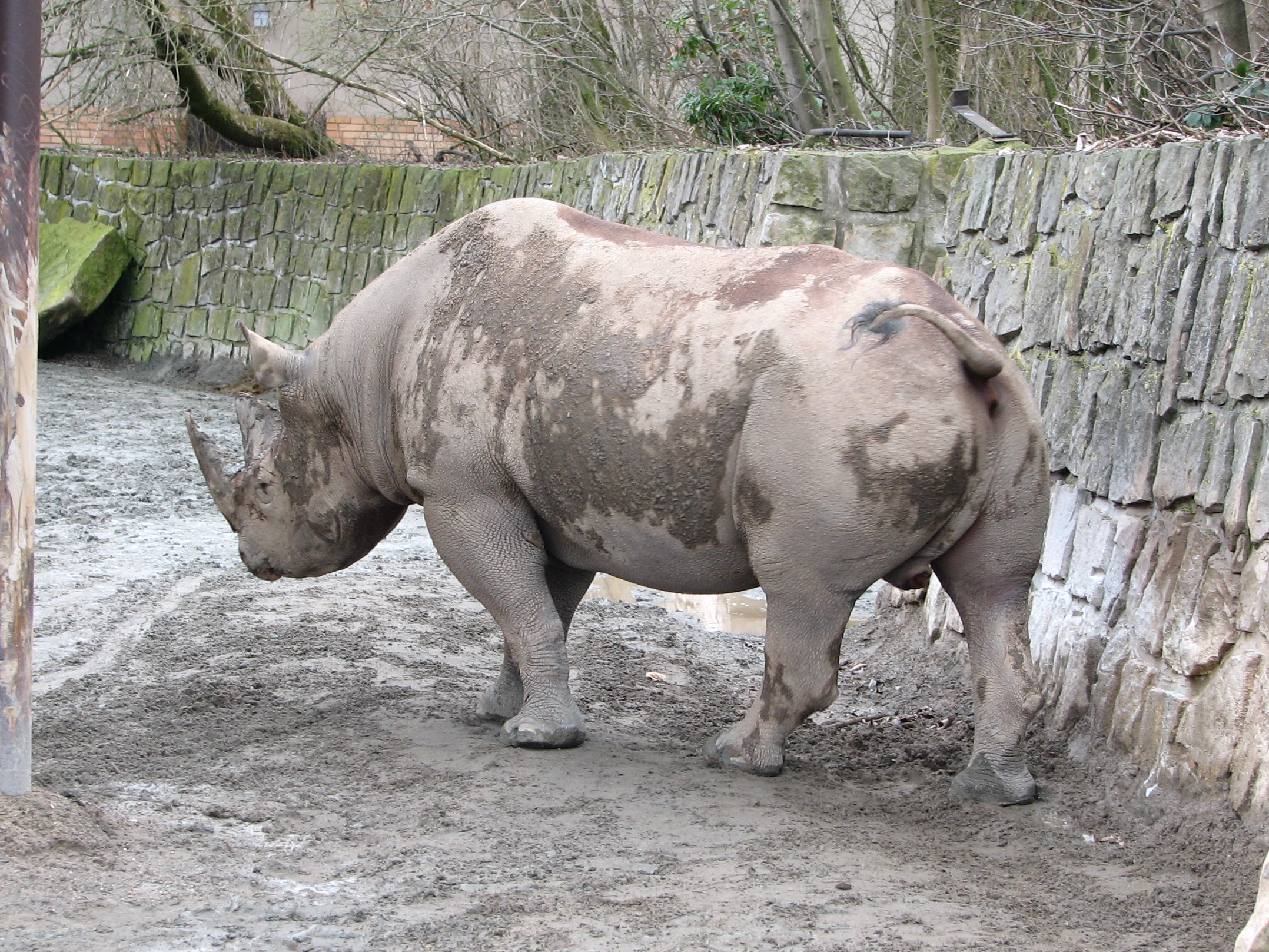 Black Rhino, ZOO Dvůr Králové, Czech Republic